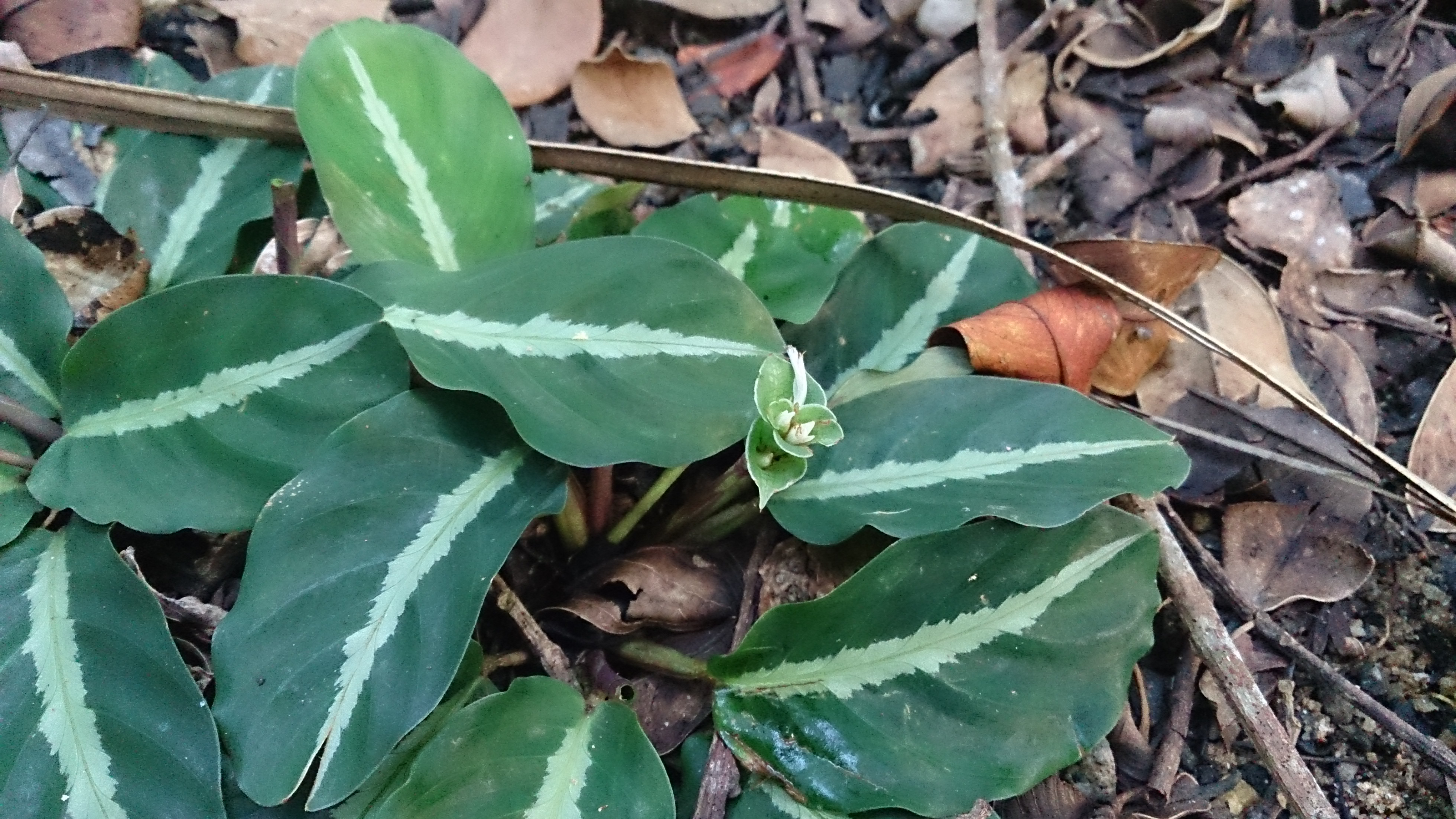 Calathea undulata. This very small species hardly exceeds 30 cm in height & occurs naturally in the forests of Peru and Brazil. The metallic dark green leaves with a silver patch on the midrib resemble the even smaller C. micans. Both the C. undulata and C. micans make good ground cover in damp shaded places.